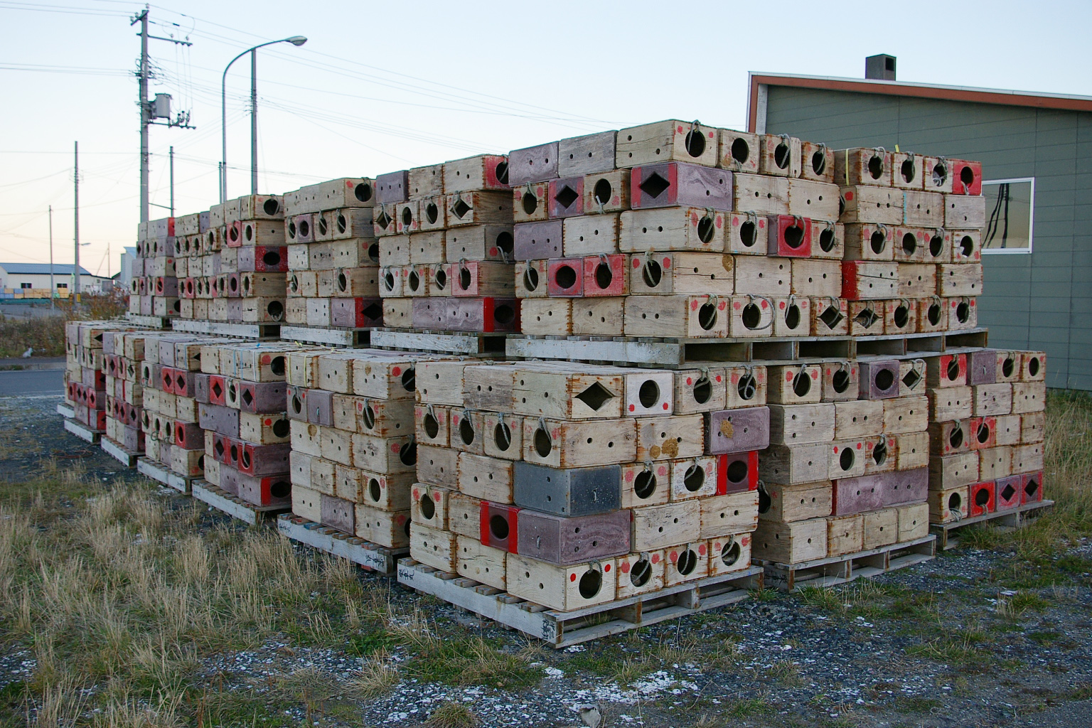 The jar for capturing an octopus.